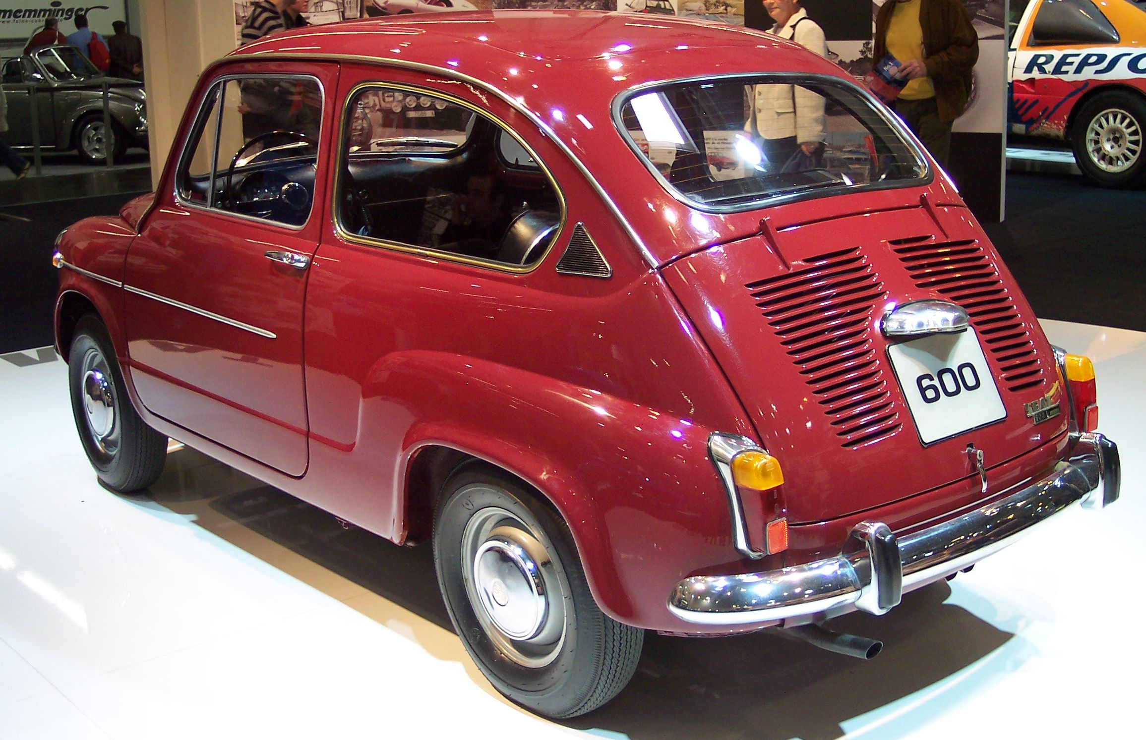 Seat 600